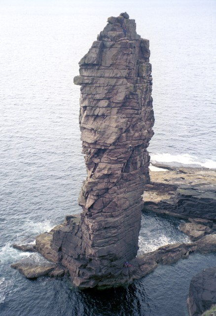 The Old Man of Stoer. A much viewed and much climbed feature on the North West Coast